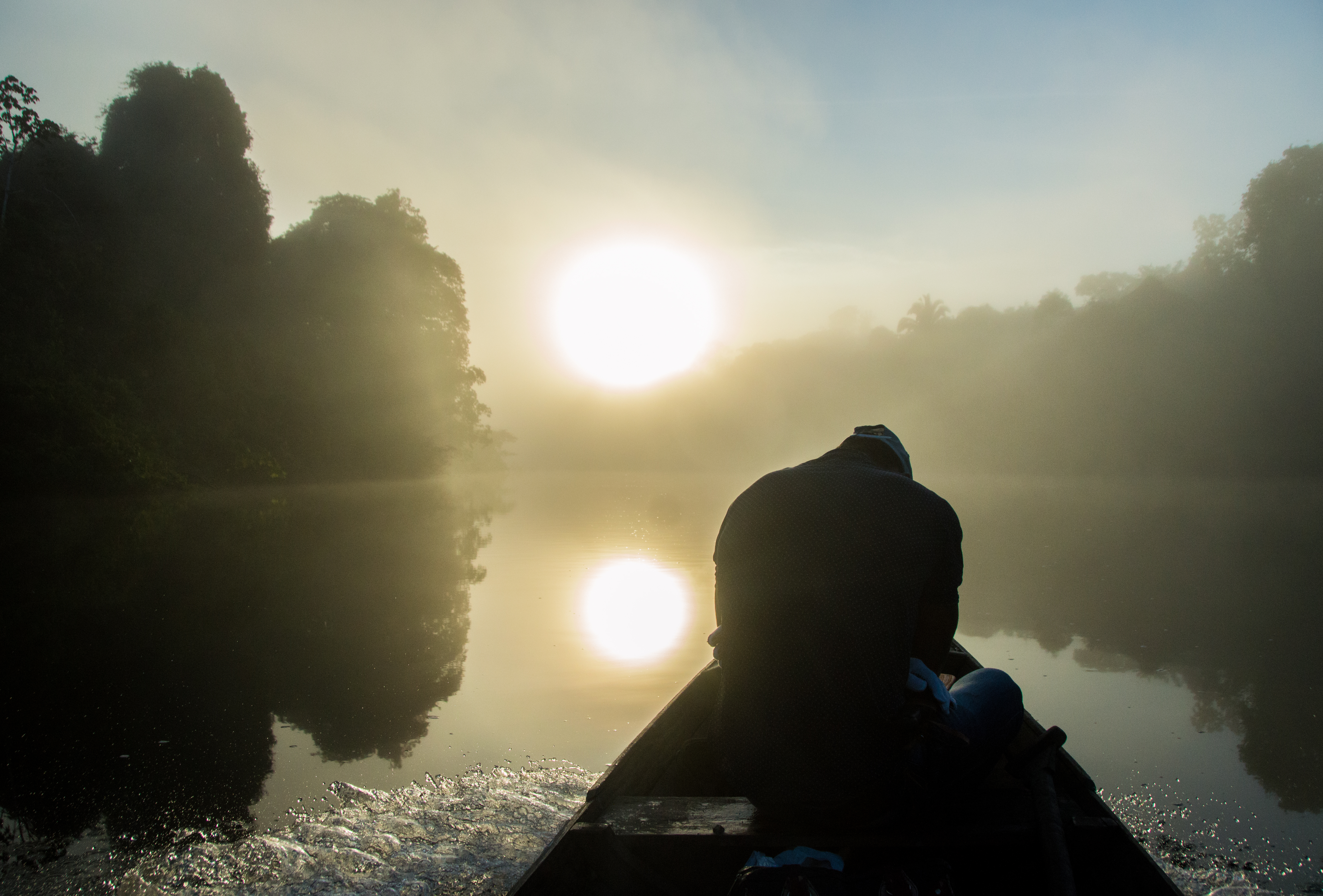 Traveling with a canoe along the Rio Novo, Terra do Meio Ecological Station, Pará, Brazil.